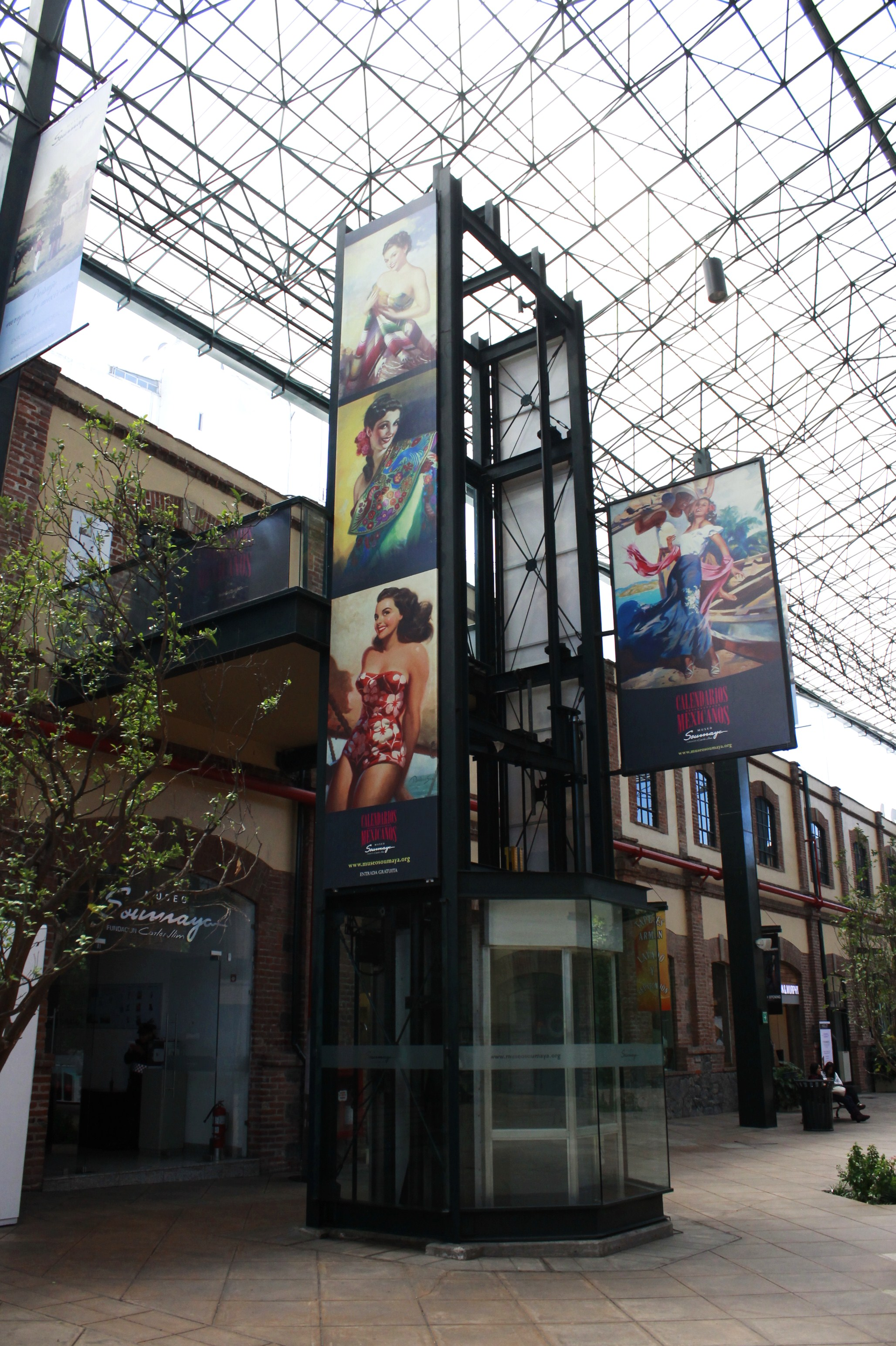 Entrada Museo Soumaya Plaza Loreto